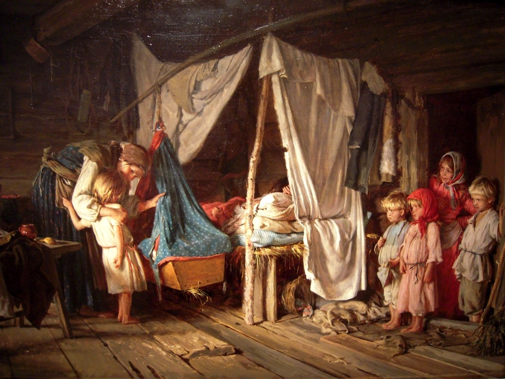 Kirill Vikentevich Lemokh (Karl Lemoch) (1841-1910) New acquaintance